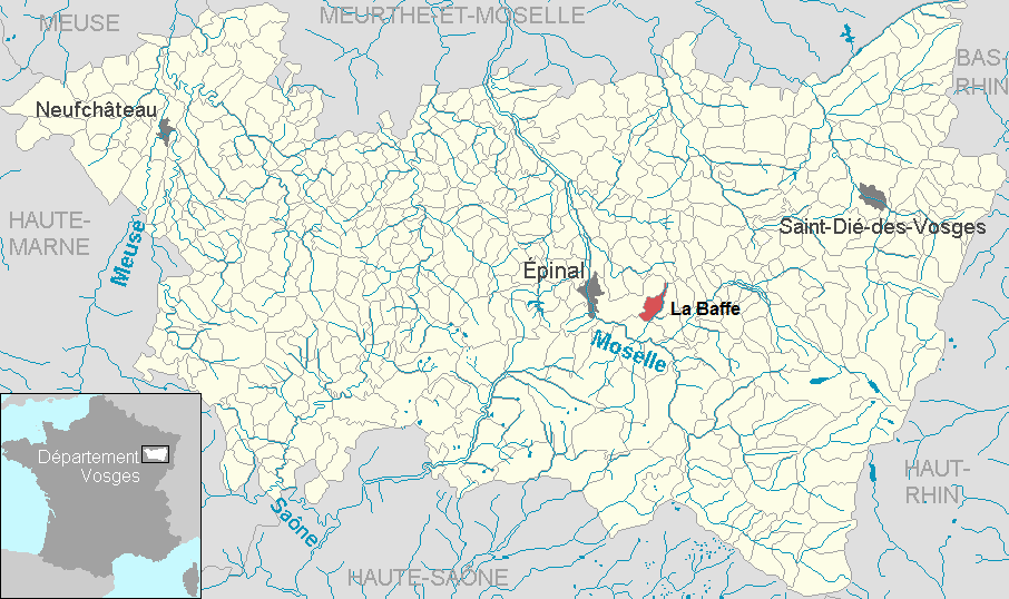 La Baffe in the department of Vosges, Lorraine, France